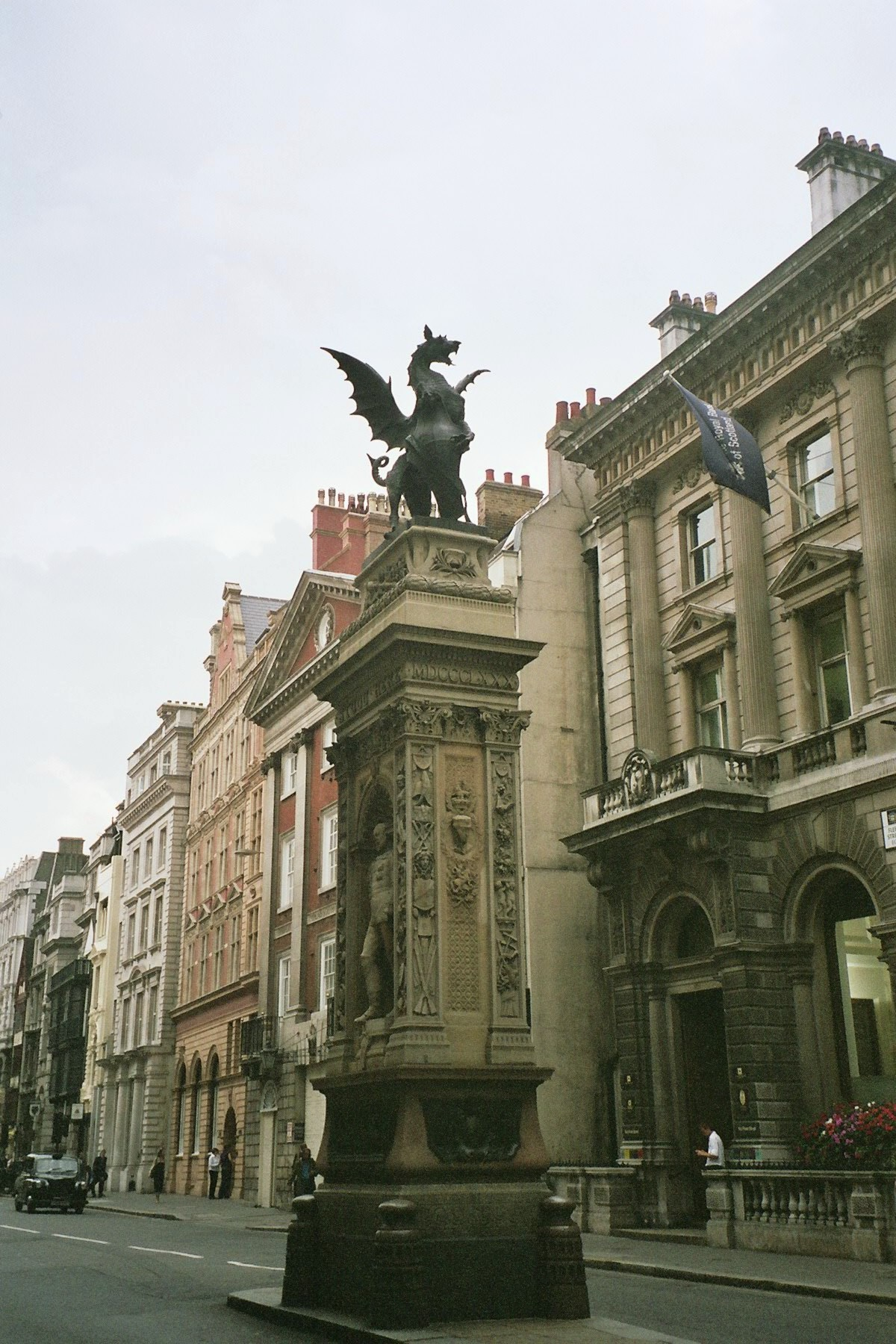 London, the Temple Bar marker near the Royal Courts of Justice